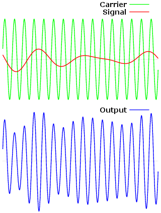 Diagram of amplitude modulation.